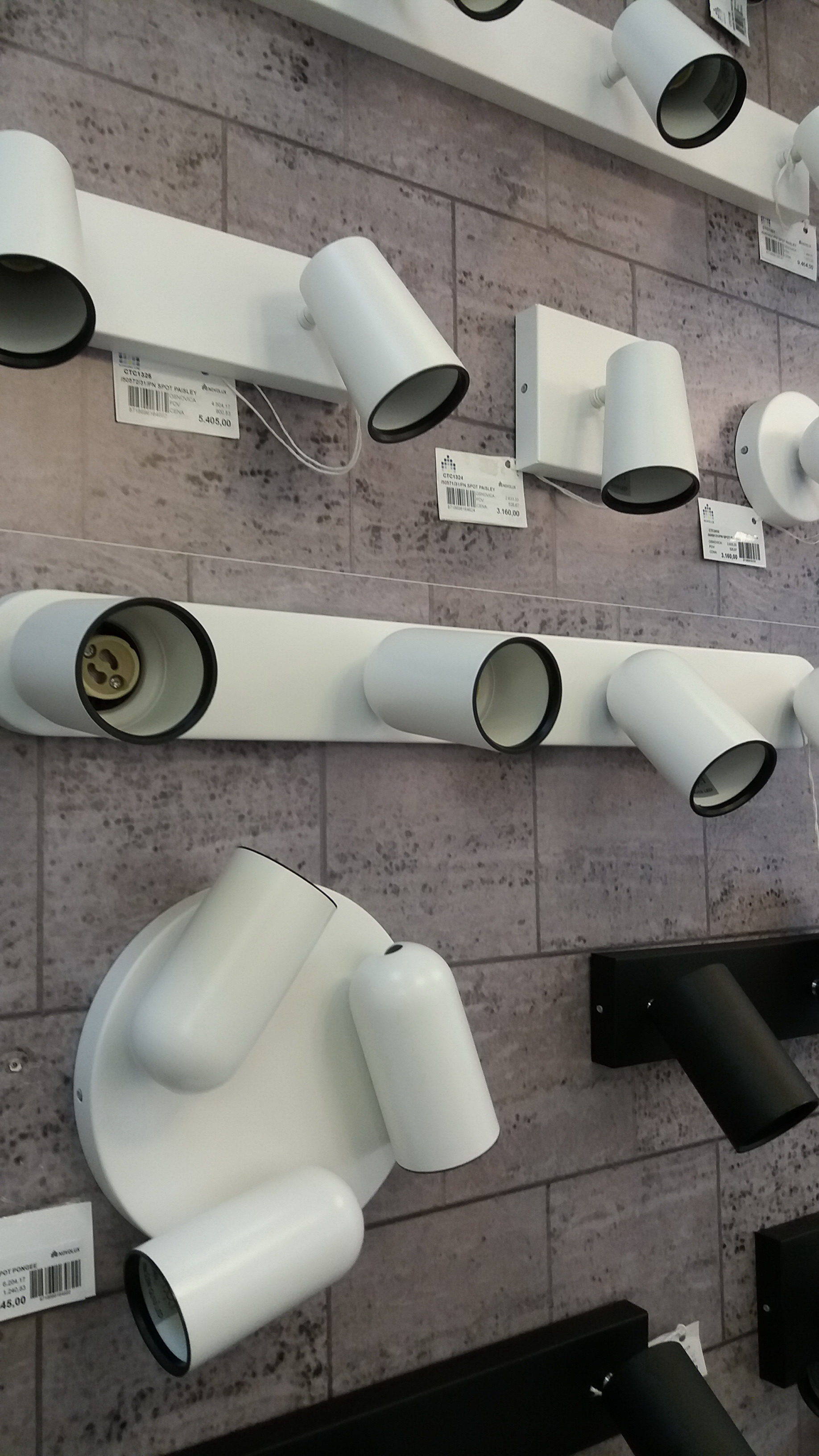 Wall lamp of modern design